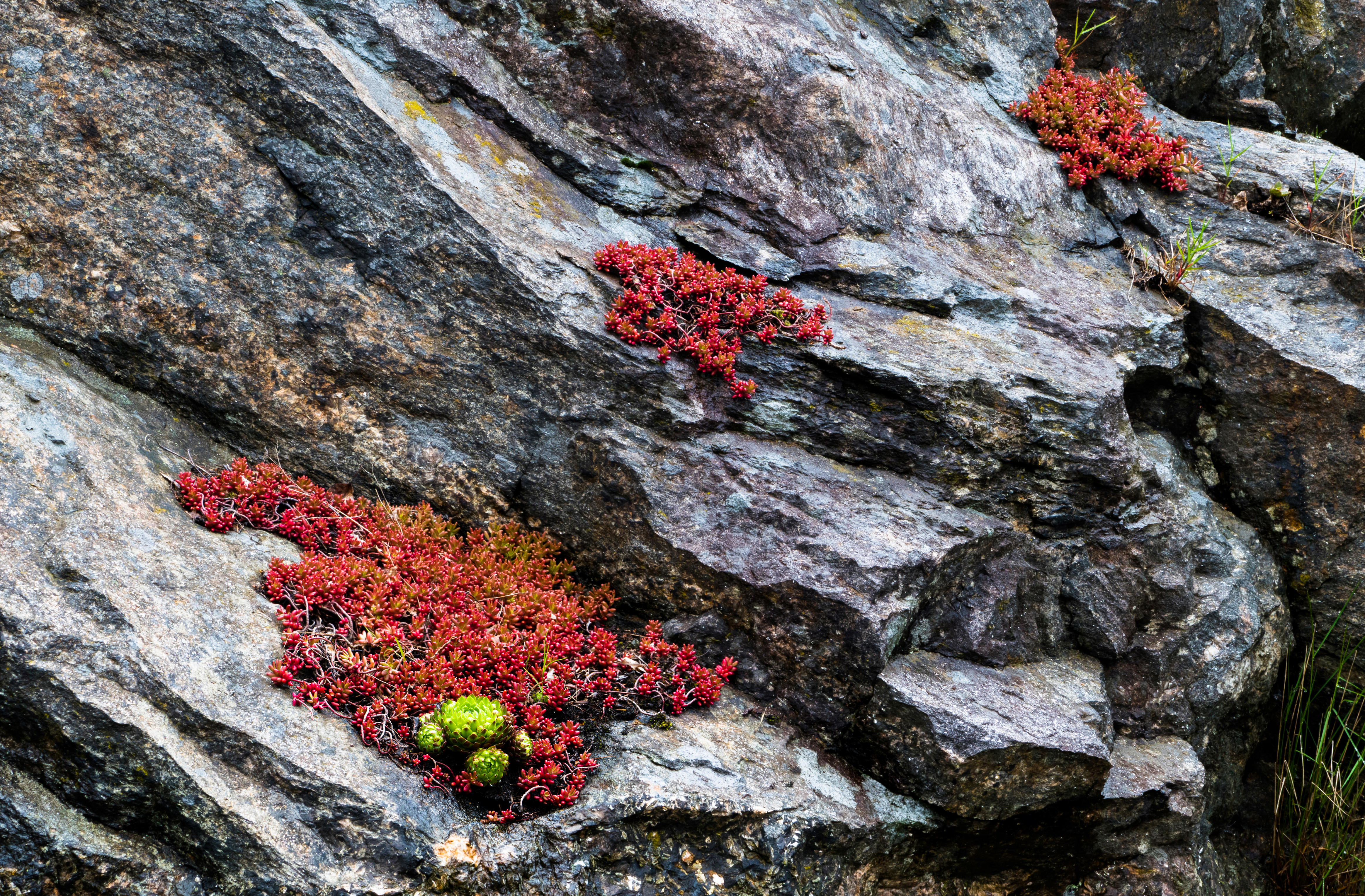 A granite cliff with common houseleek (Sempervivum tectorum) and pink jelly bean plant (Sedum rubrotinctum) at Holma boat club, Lysekil Municipality, Sweden, after the rain. The cliff is red granite, turned dark by pecipitation and dirt. The picture is focus stacked from five photos.